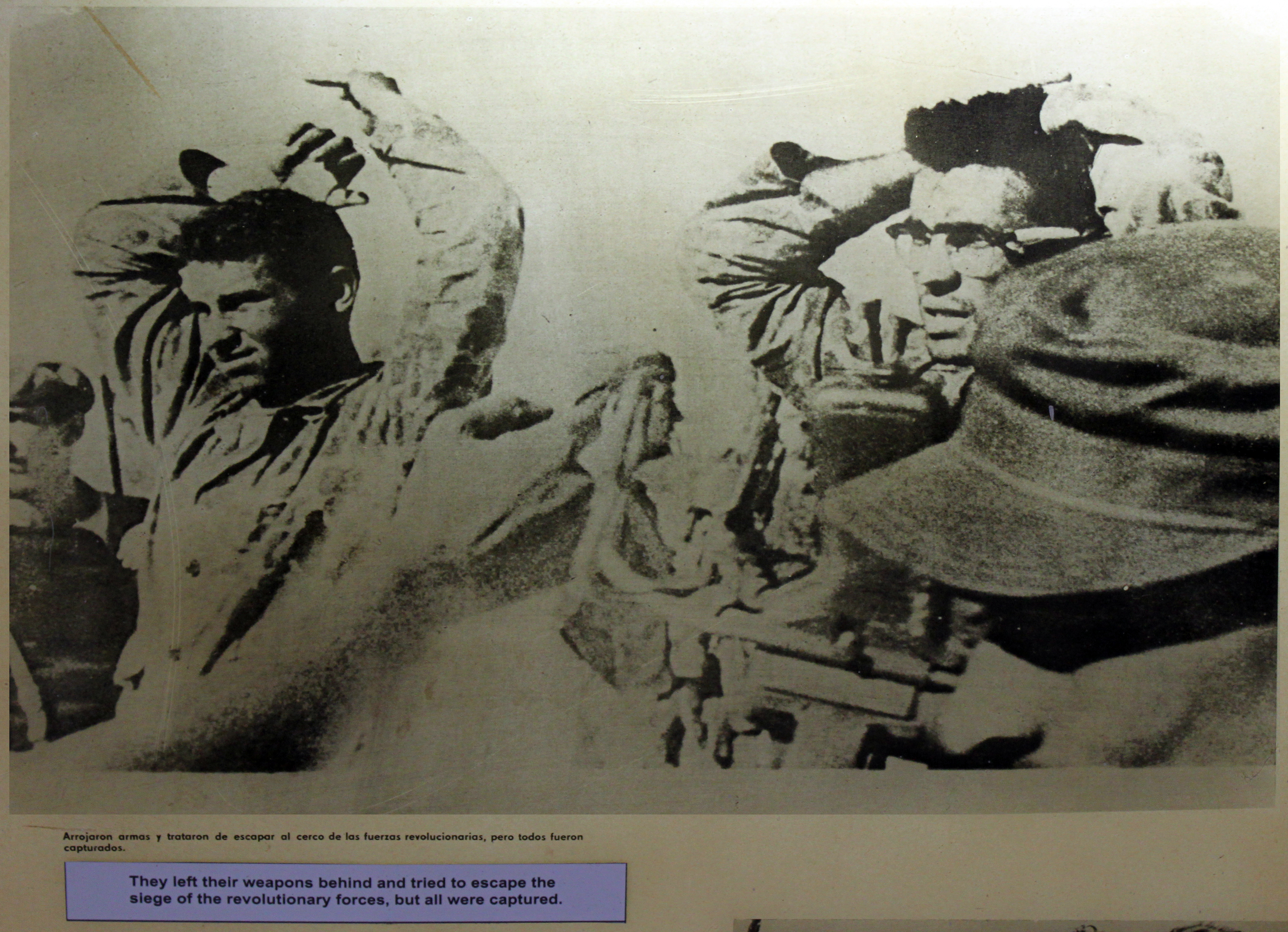 Museo Girón (museum about the invasion in the Bay of Pigs): Captured exile cubanian mercenaries